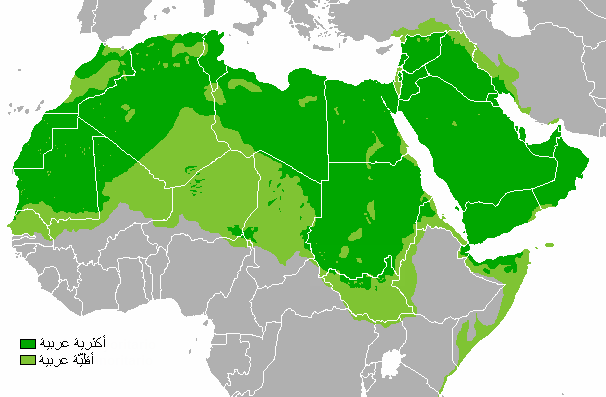 Arab language dispersion.